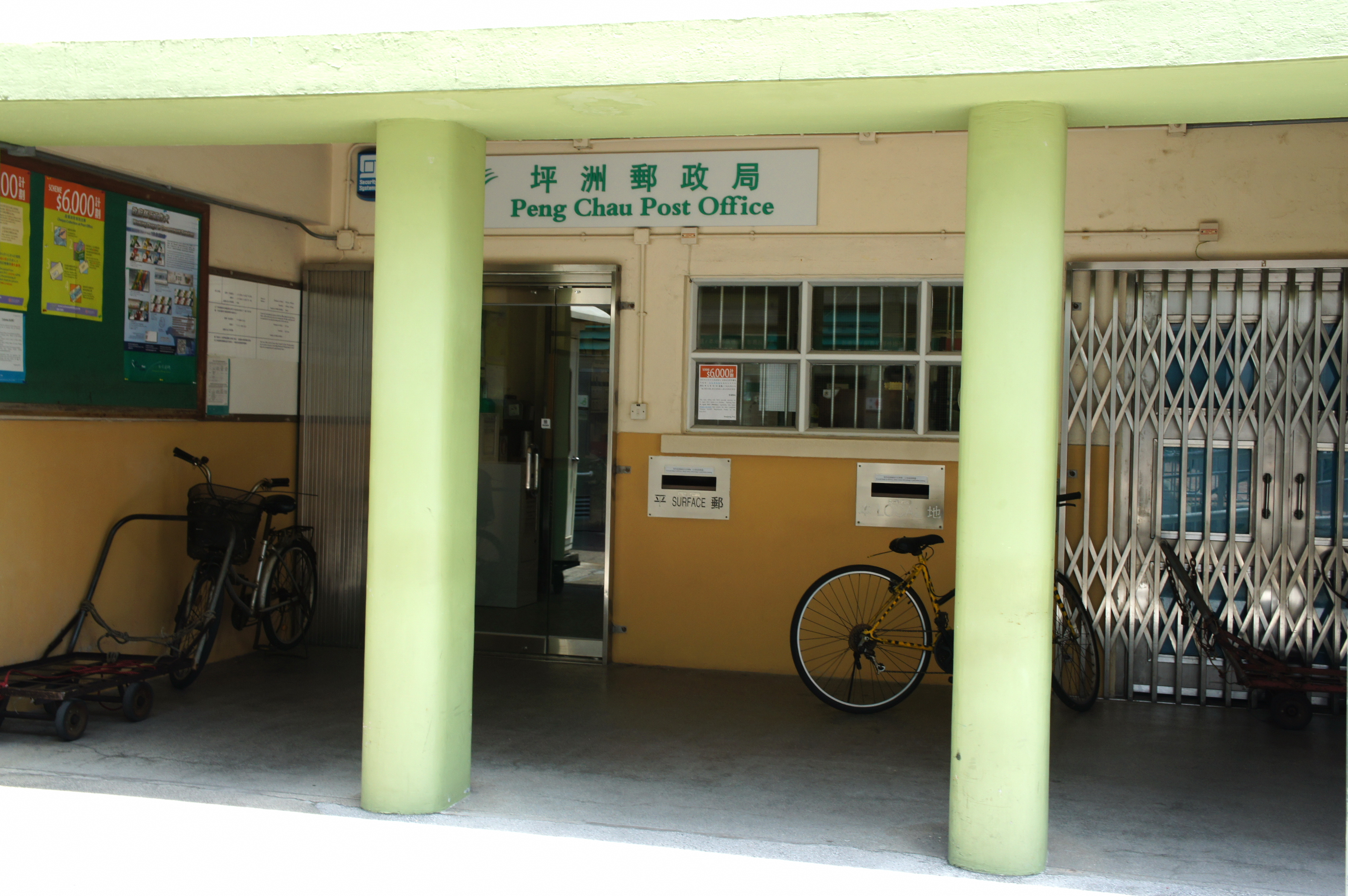 Peng Chau Post Office, Peng Chau, Hong Kong.